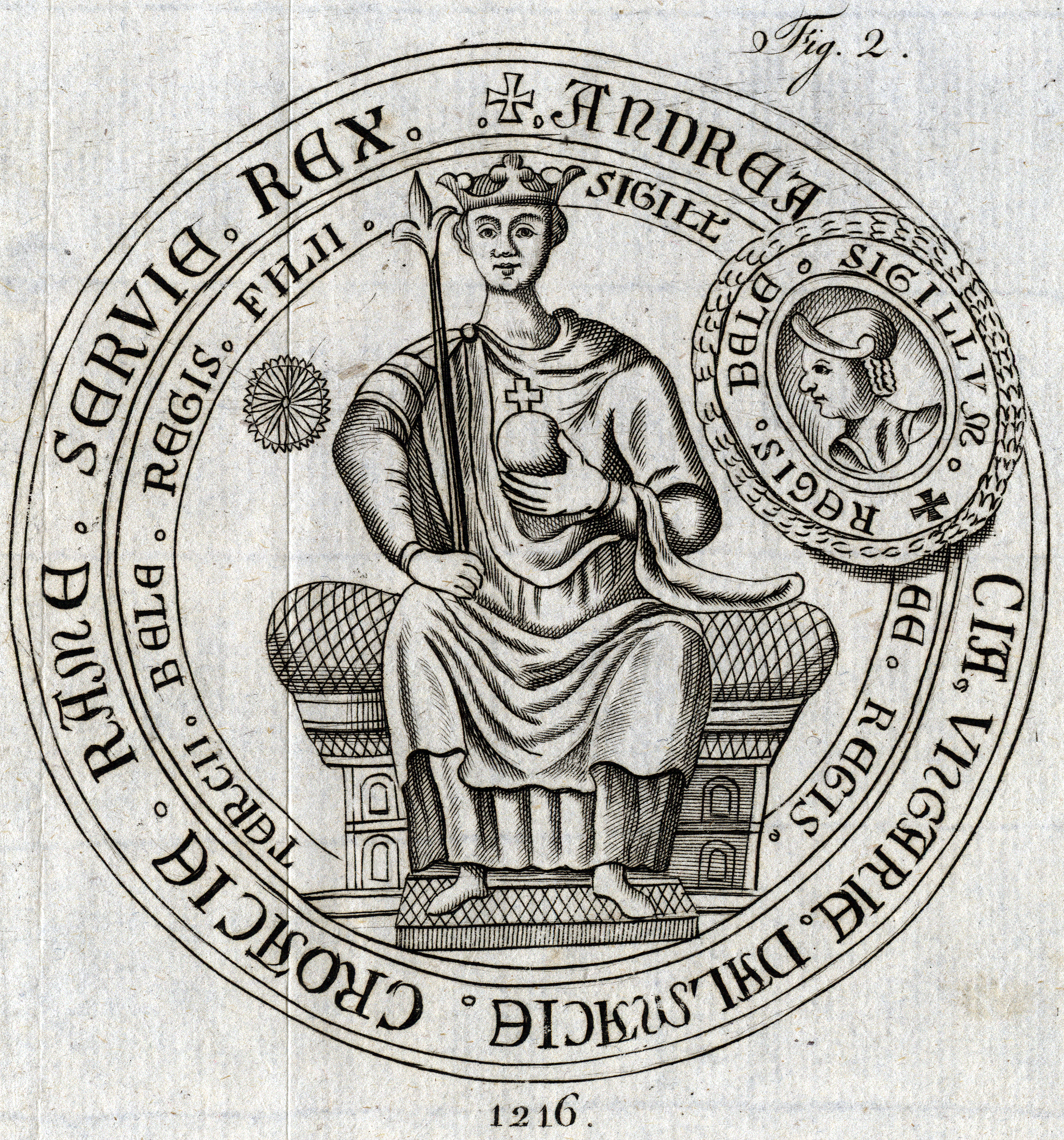 Seal of Andrew II of Hungary (used in 1216)